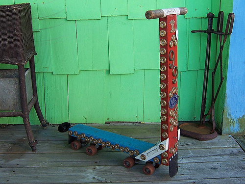 An old scooter with skate trucks.